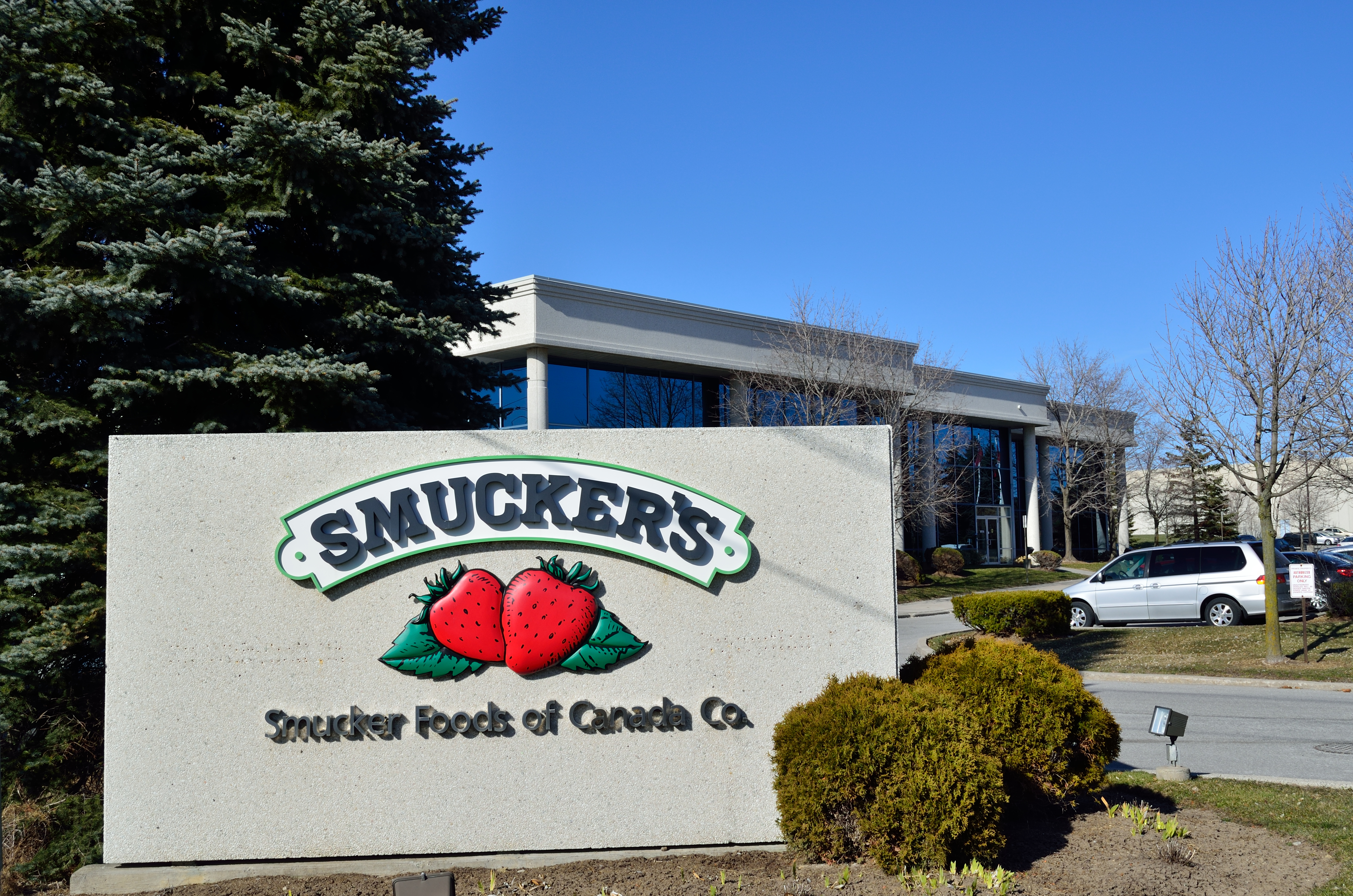 Smucker Foods of Canada Corp. - 80 Whitehall Drive, Markham, ON Canada L3R 0P3